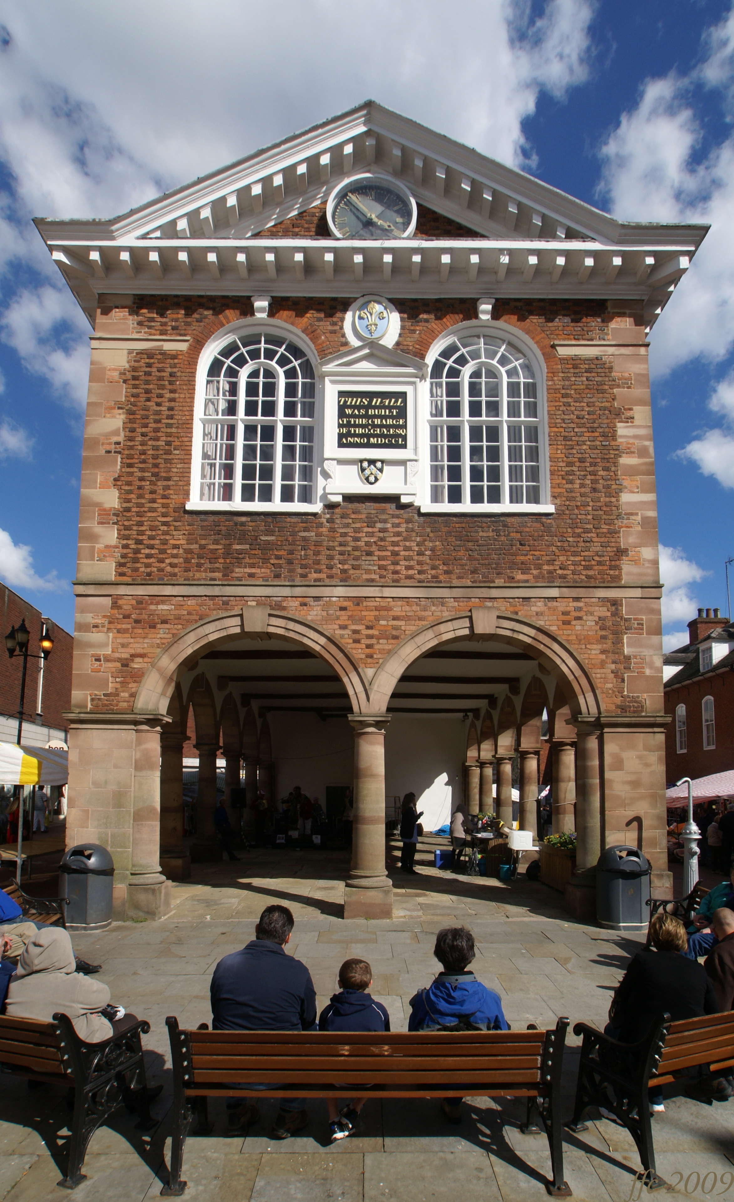 Tamworth (United Kingdom): Town Hall built at the charge of Thomas Guy esq in 1701